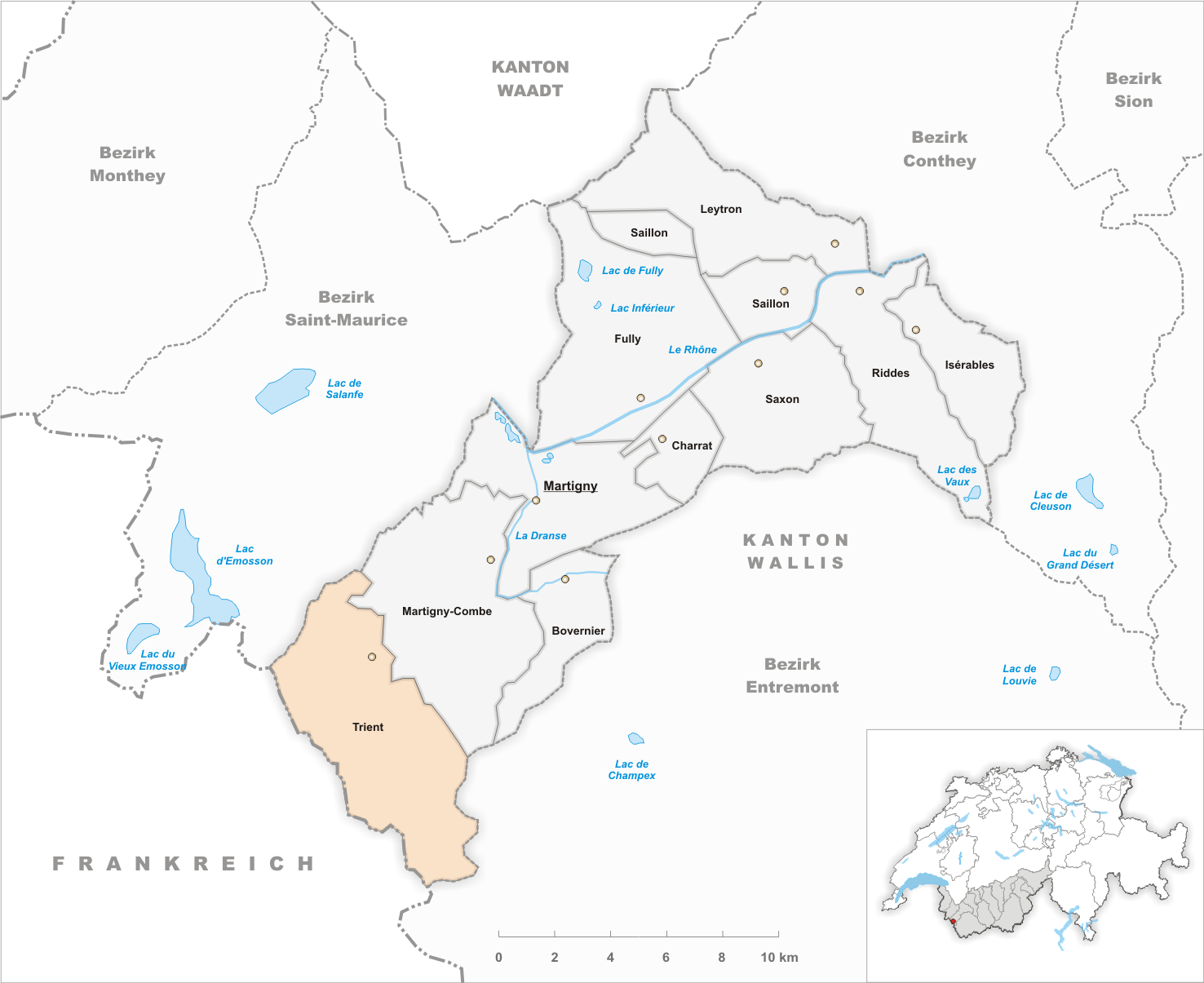 Municipality Trient